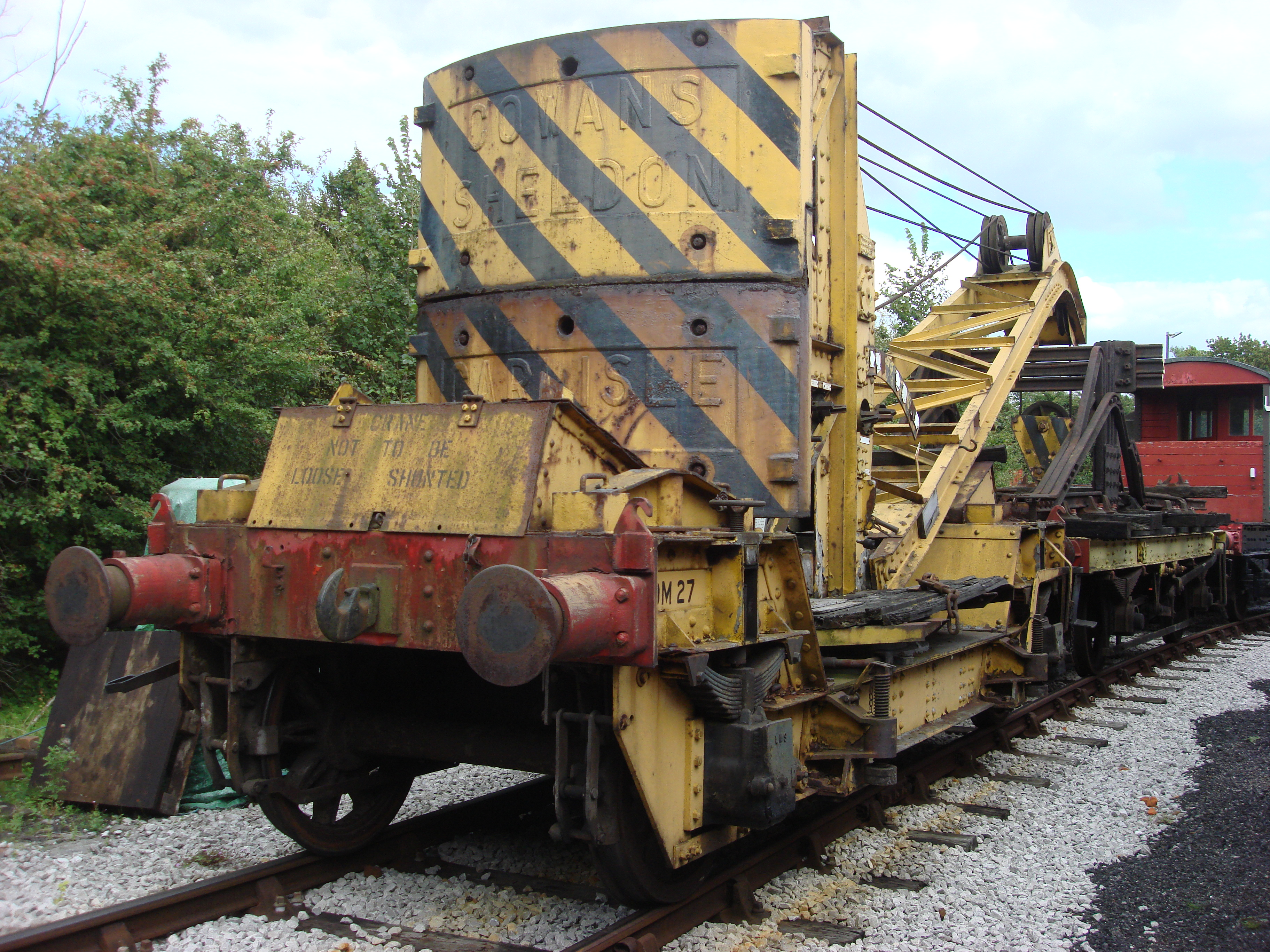 LMS 10-ton Hand Crane No. ADM 27